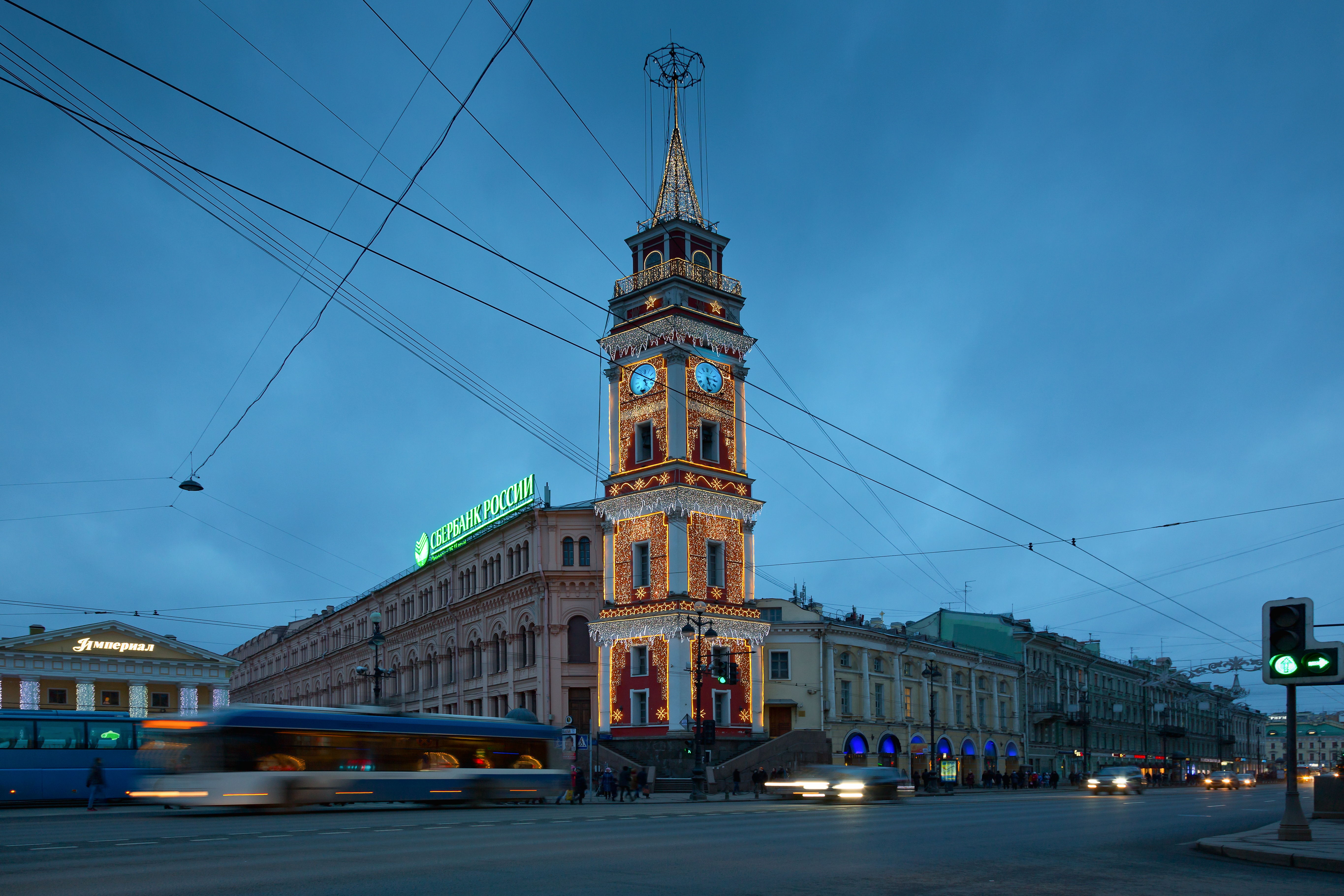 City Duma Tower in Saint Petersburg